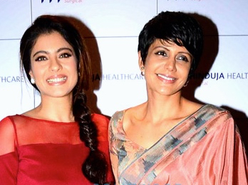 Indian actresses Kajol and Mandira Bedi at the Women's Wellness event in 2016